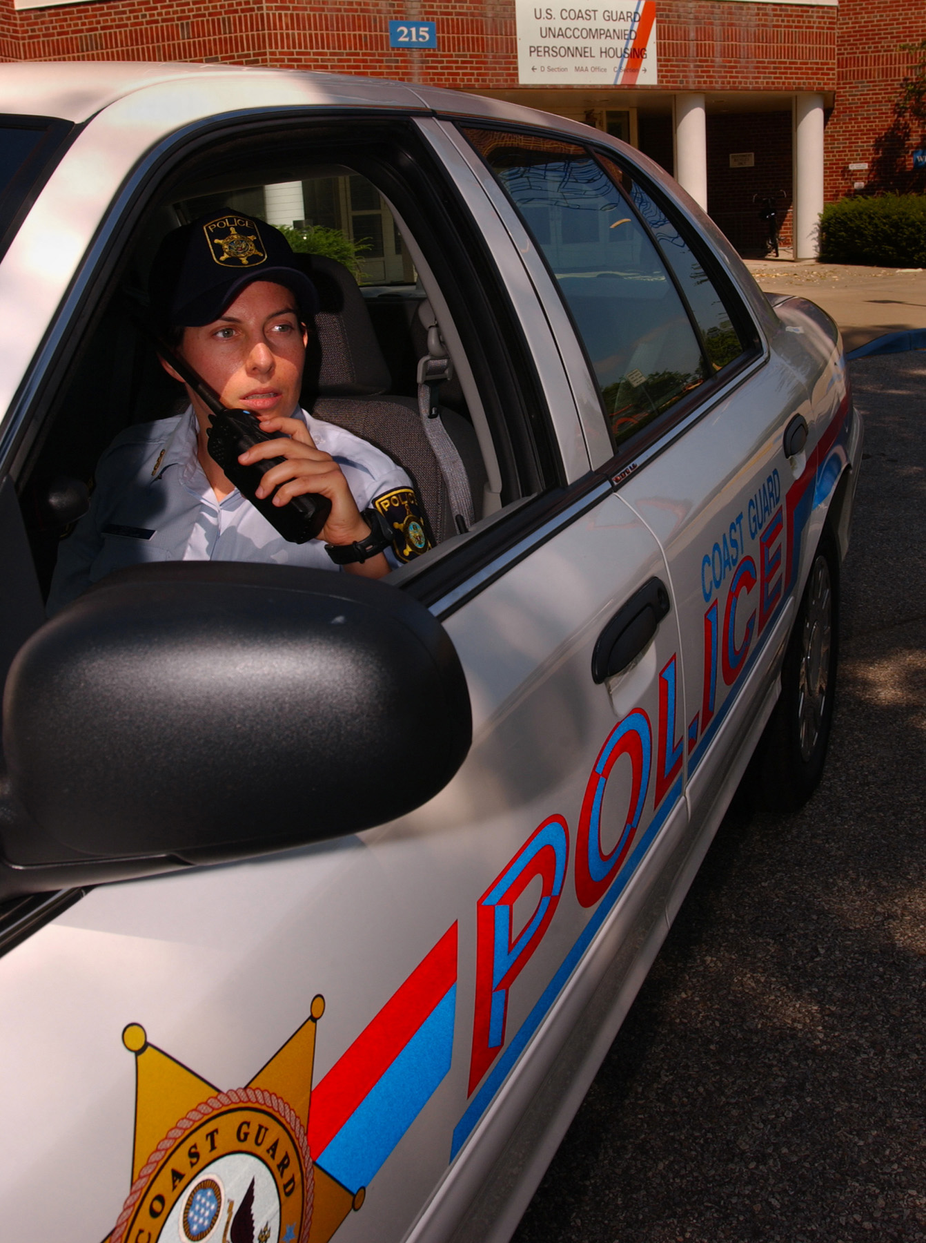 NEW YORK, New York (July 18, 2003)--Port Security 3rd Class Francesca Smith, of the Coast Guard Police Department at Coast Guard Activites New York on Staten Island, in her patrol car July 17, 2003. Smith won the New York City Golden Gloves in May 2003. USCG photo by PA1 Tom Sperduto